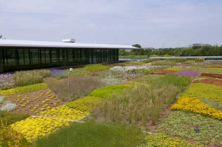 The green roof garden a top the Daniel F. and Ada L. Rice Plant Conservation Science Center.